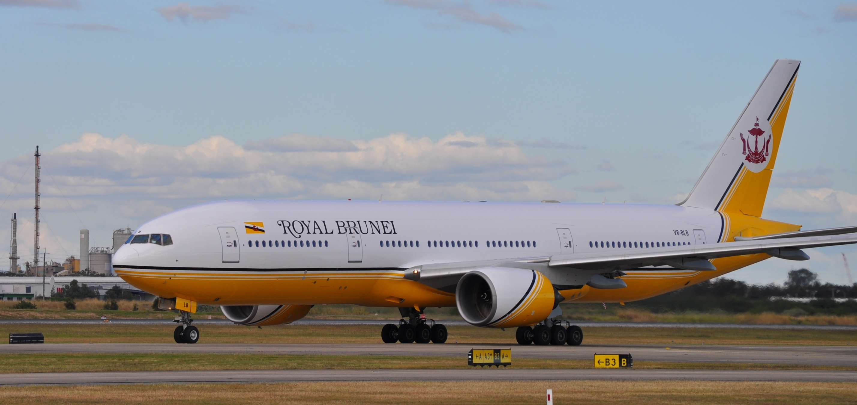 A Royal Brunei Airlines Boeing 777 taxxing at Brisbane Airport in Australia.